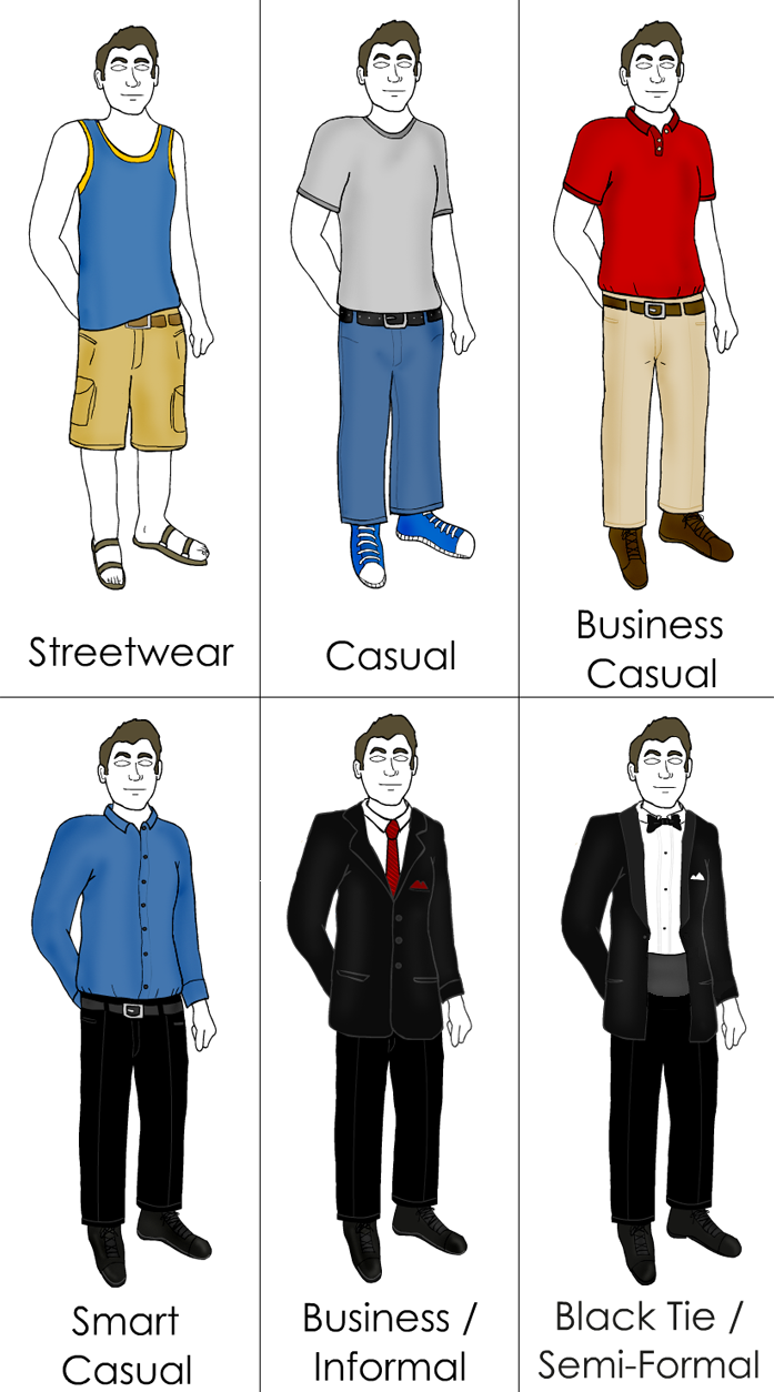 Example of a common dress code for males in modern Western culture. Note that these designations are far from universal, but offer examples of standard and commonly-understood levels of acceptable dress.